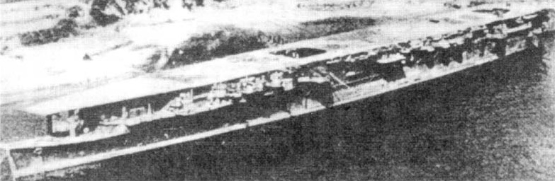 The Japanese aircraft carrier Ryūhō anchored at Kure, Japan, in October 1945. The photo was taken by an aircraft from the U.S. Navy escort carrier USS Siboney (CVE-112).